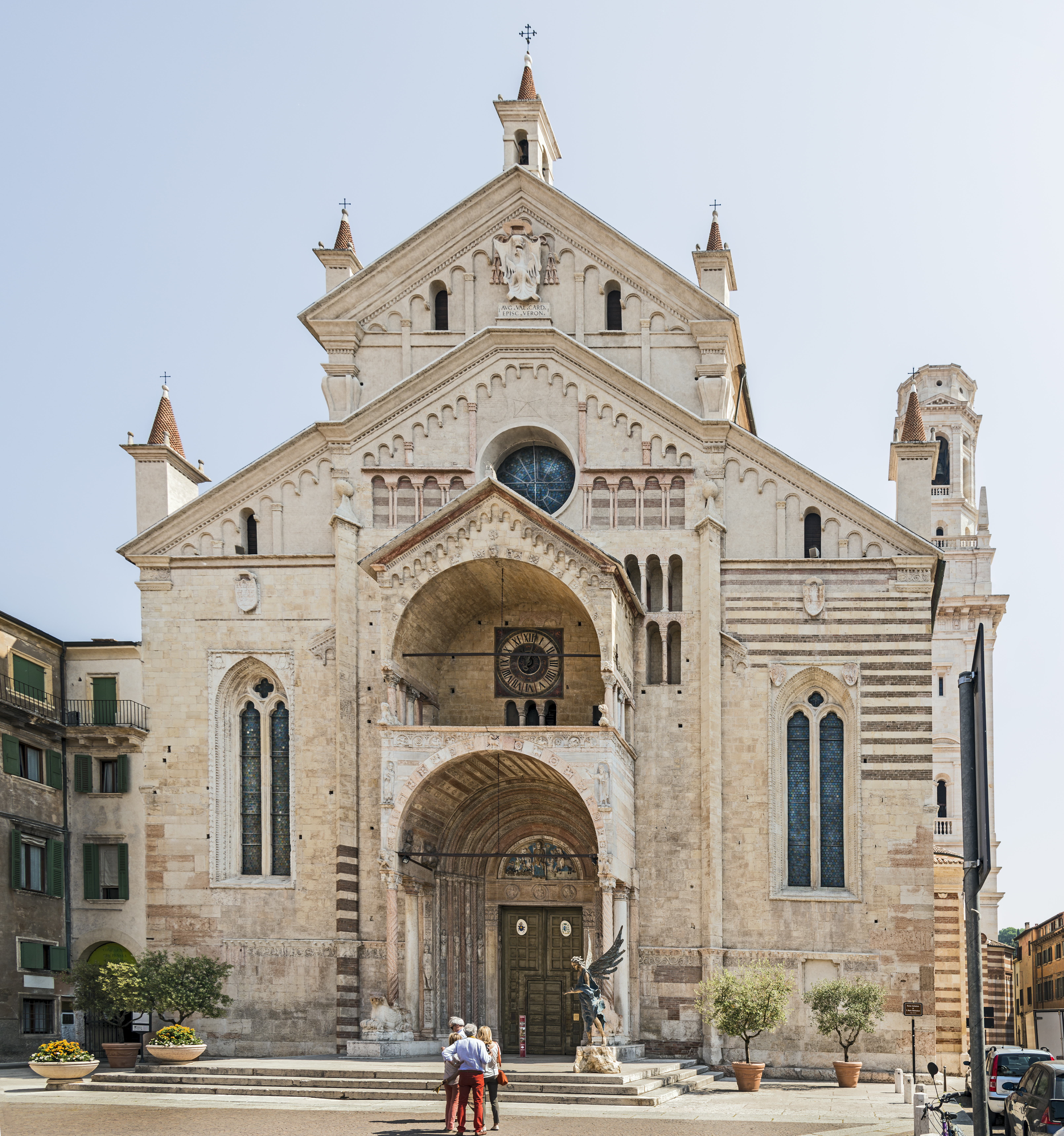 Cattedrale Santa Maria Matricolare - Facade